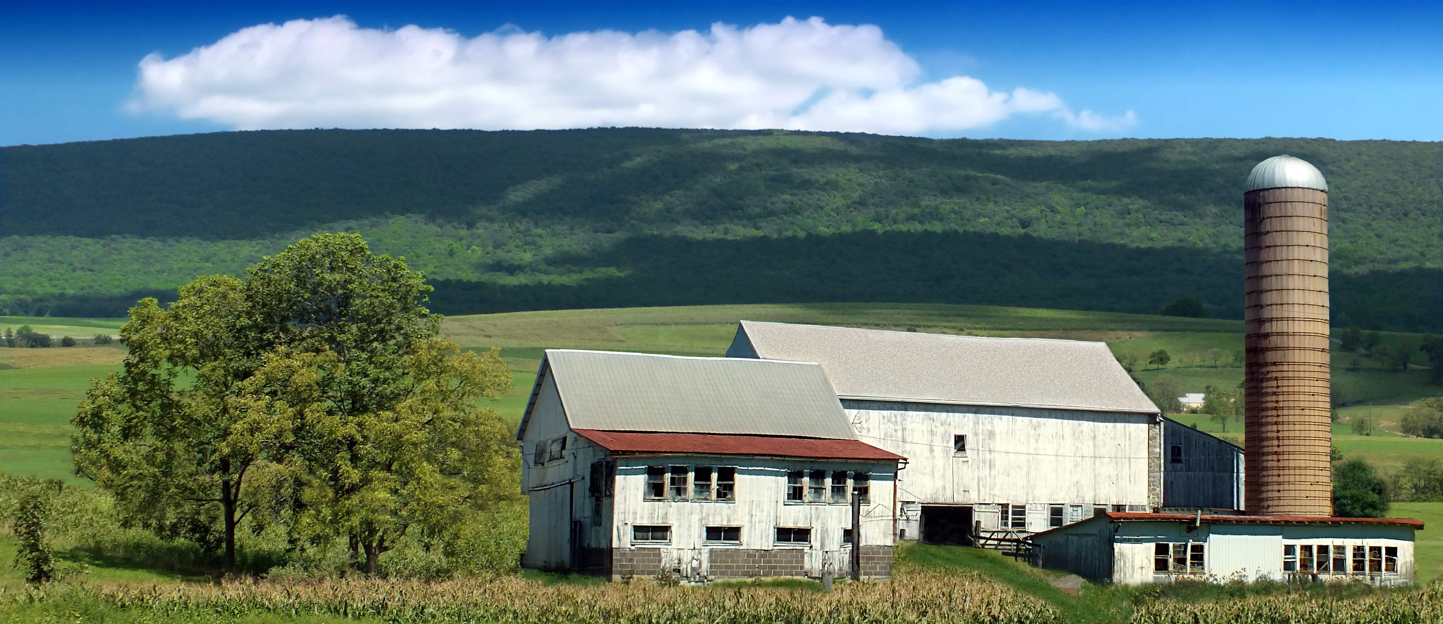 Farmstead, Tilden Township, Berks County.